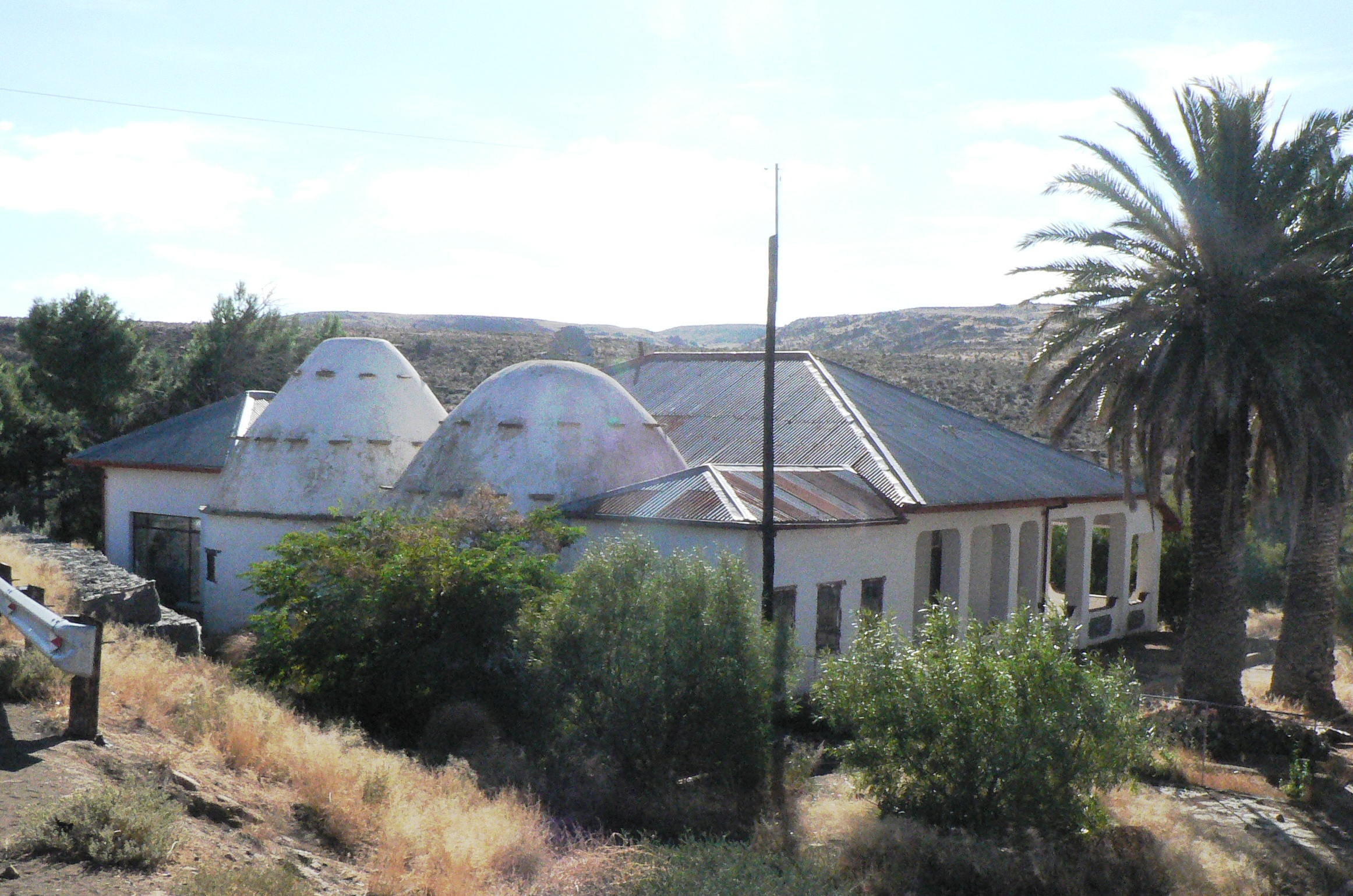 Lack of wood in the dry Bushmanland environment led tpioneer farmers to create a vernacular buildings style building cinical roof structures from stone, ie: corbelling. This media shows a South African Protected Site with SAHRA file reference 9/2/019/0011.